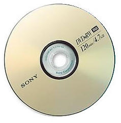 Sony DVD.